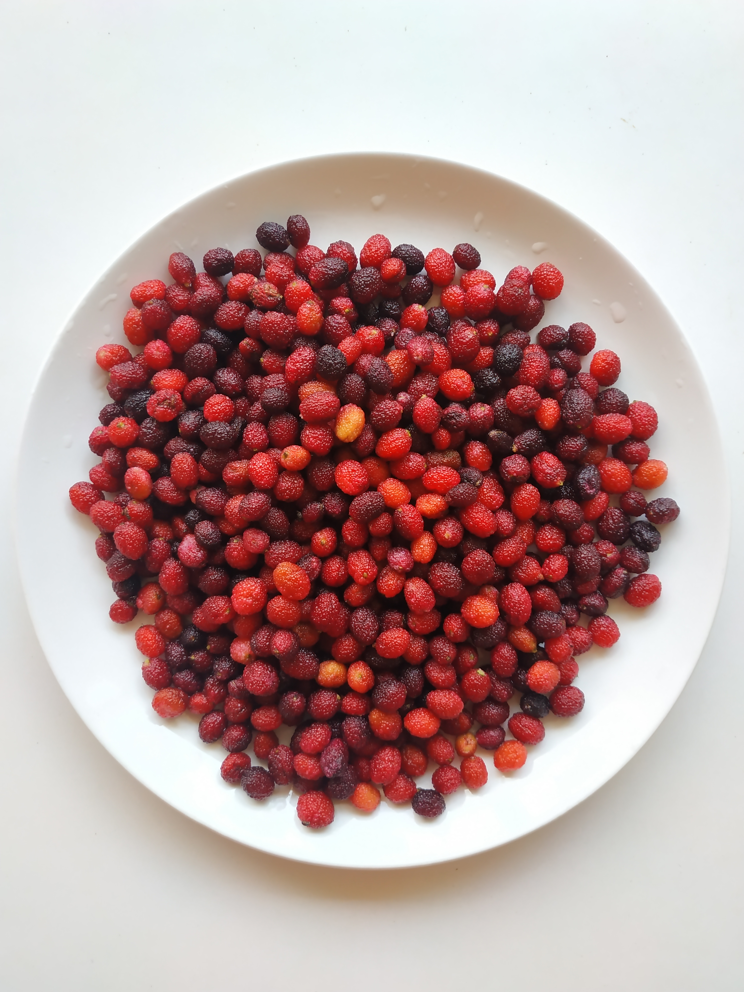 Myrica esculenta or common name box myrtle or bayberry